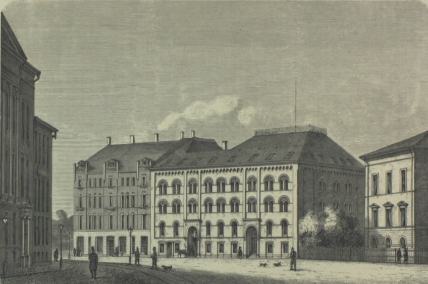 Handelshuset M. E. Grøn & Søn's department store at Gammelholm in Copenhagen, Denmark